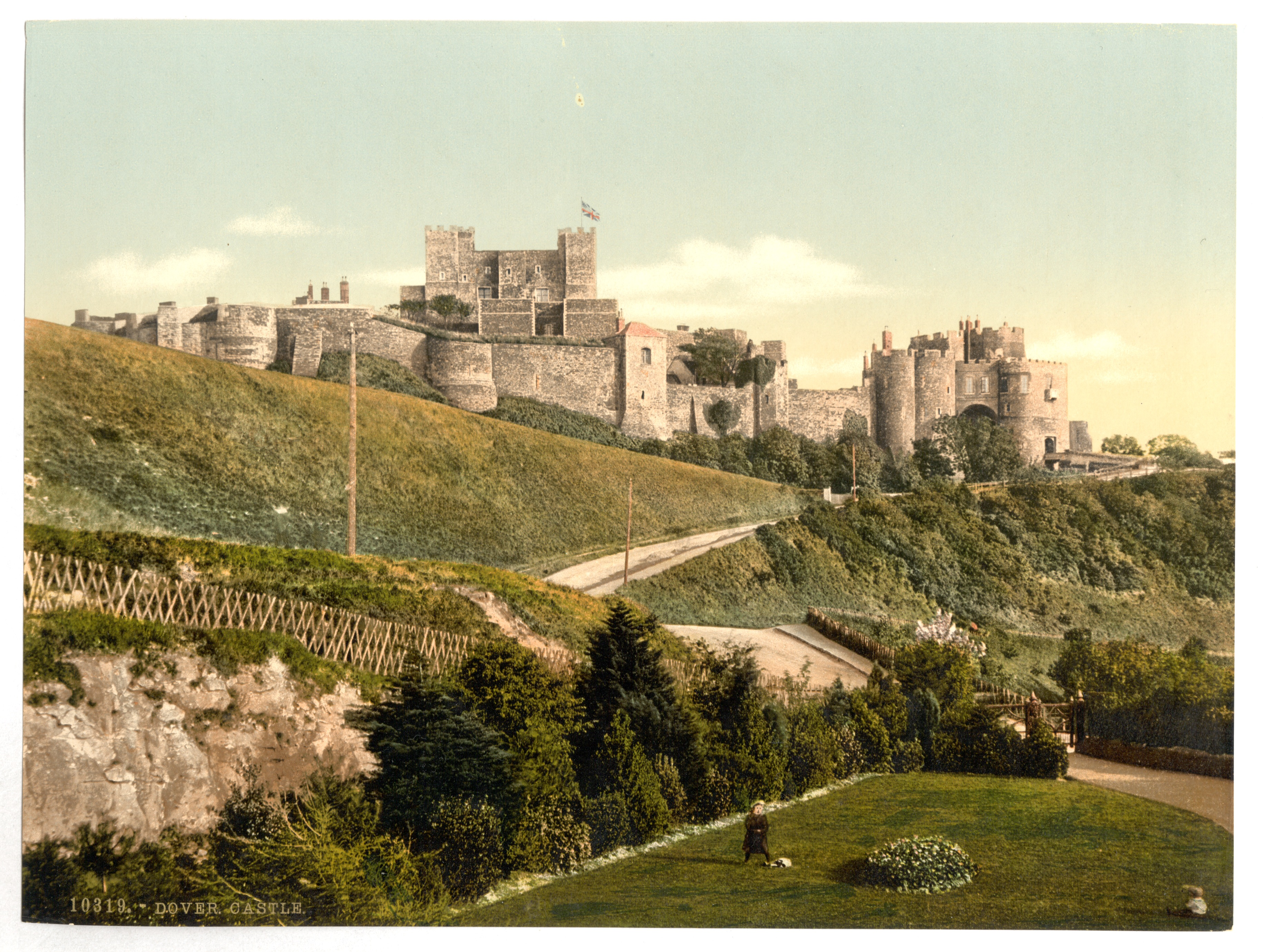 Print no. "10319".; Forms part of: Views of the British Isles, in the Photochrom print collection.; More information about the Photochrom Print Collection is available at Title from the Detroit Publishing Co., Catalogue J-foreign section, Detroit, Mich. : Detroit Publishing Company, 1905.